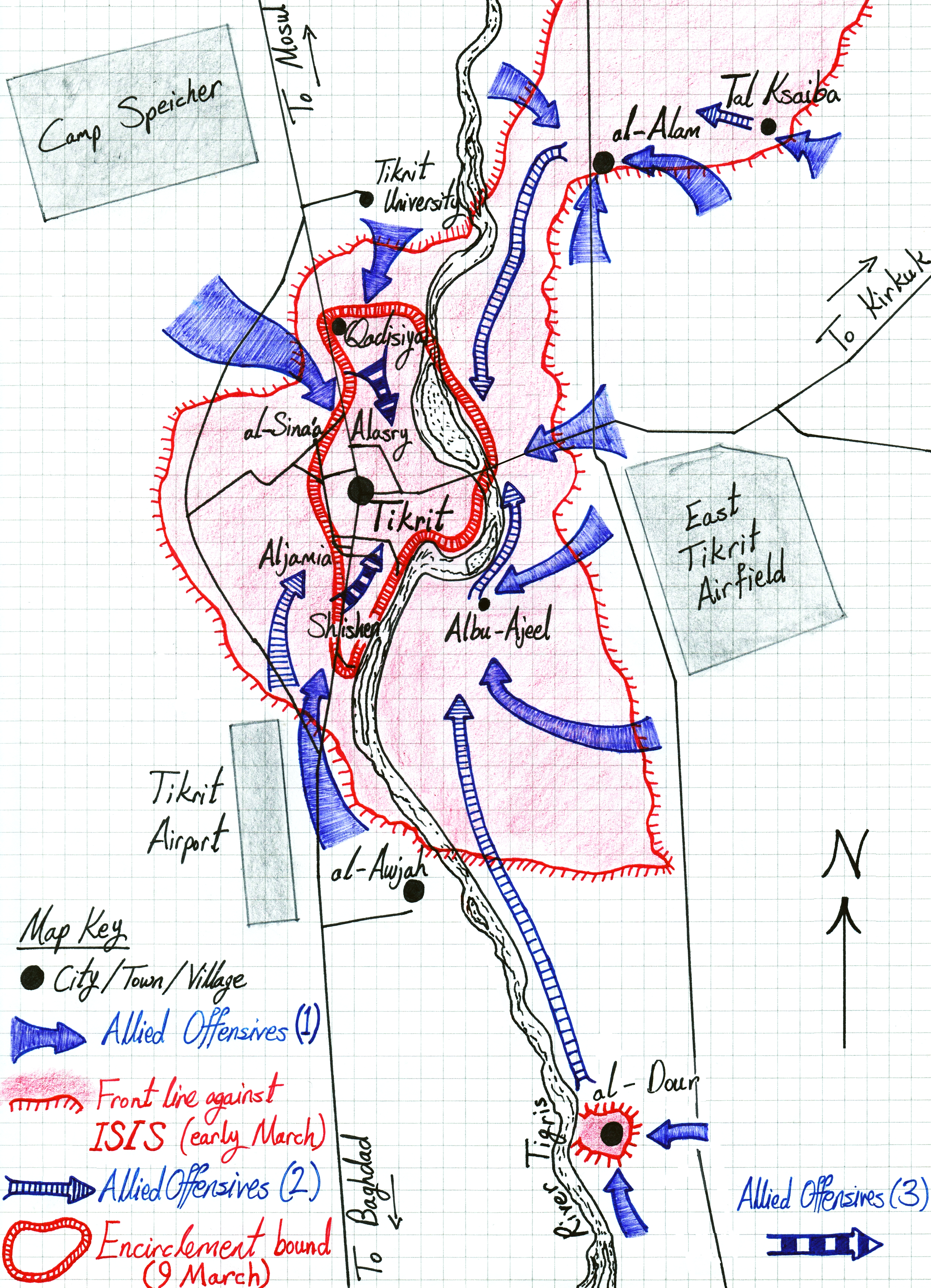 battle